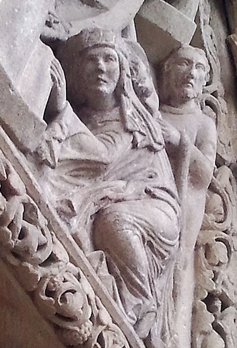 Constantia of Hungary, Queen of Bohemia. A relief on the portal of the Cistercian Abbey of Porta Coeli in Moravia where she is depicted as the founder of the monastery.